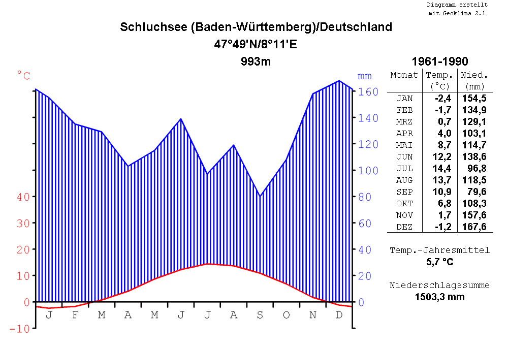 climate chart of Schluchsee, Baden-Württemberg, Germany, for the period of time from 1961 to 1990, in the format by Walter and Lieth, metric, °Celsius and millimeters, chart made with Geoklima 2.1, label in German